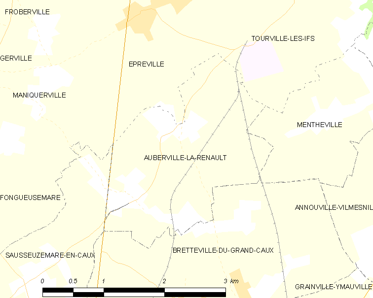 Map of French municipality Auberville-la-Renault